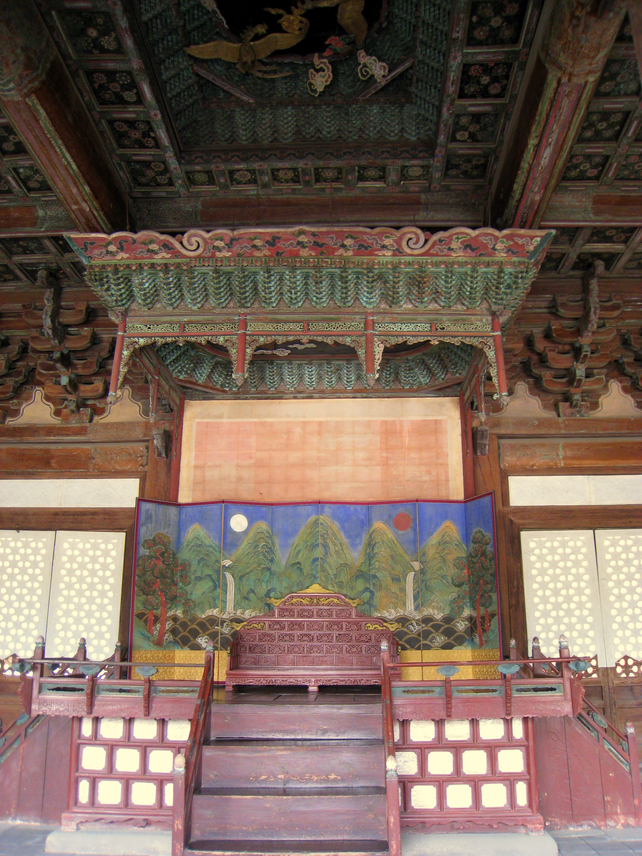 Myeongjeongjeon (interior), Changgyeonggung - Seoul, Korea.